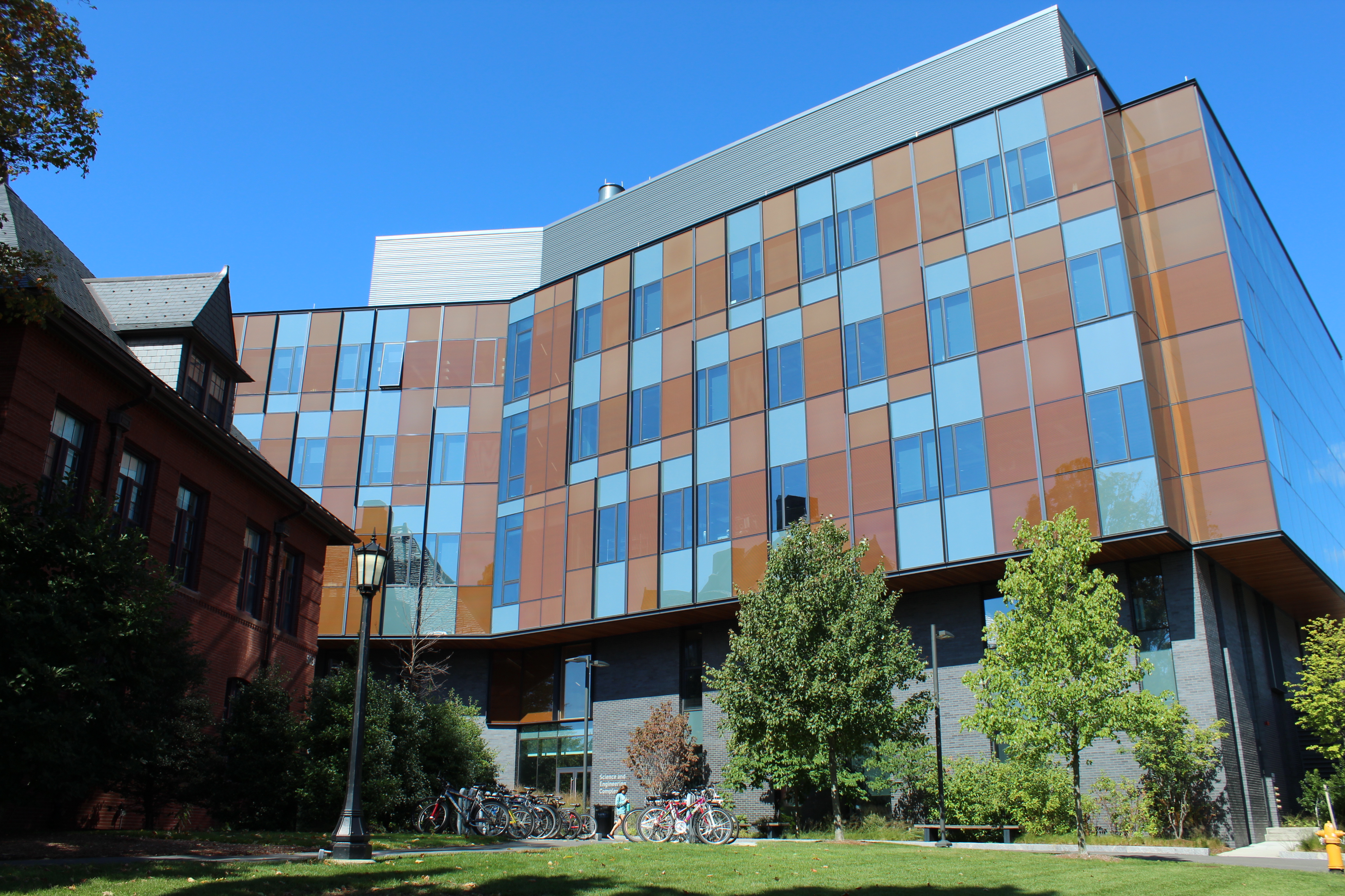 The Science and Engineering Complex on the Somerville/Medford campus of Tufts University. The building is a hub for science, engineering, and innovation instruction.